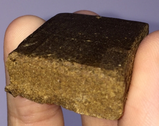 A lump of hash held in a hand